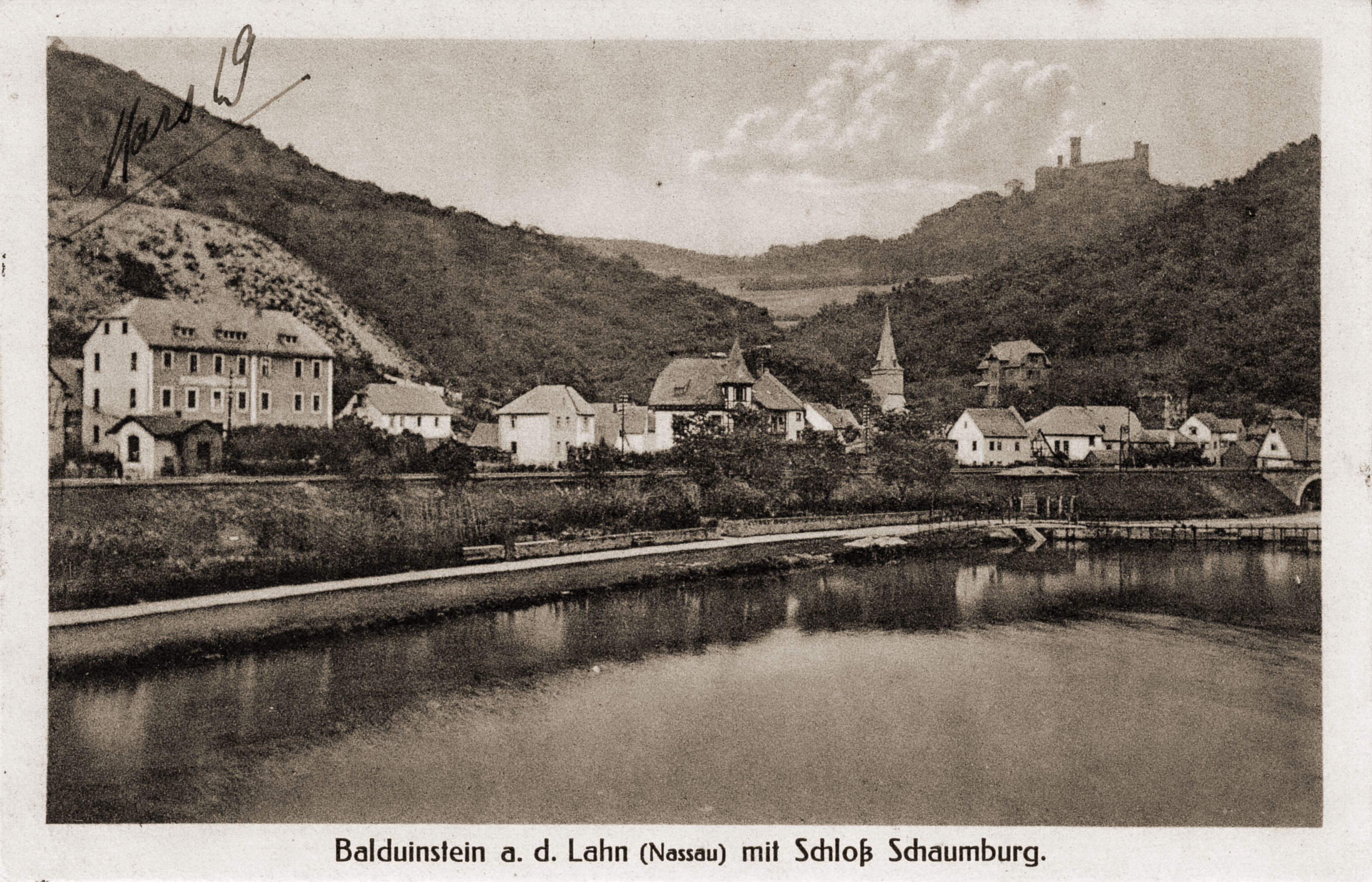 The german town of Balduinstein on the river Lahn with the castle Schaumburg in the background.